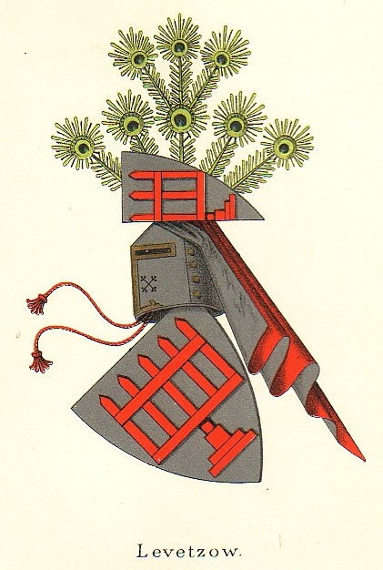 Coat of arms of the Levetzow family